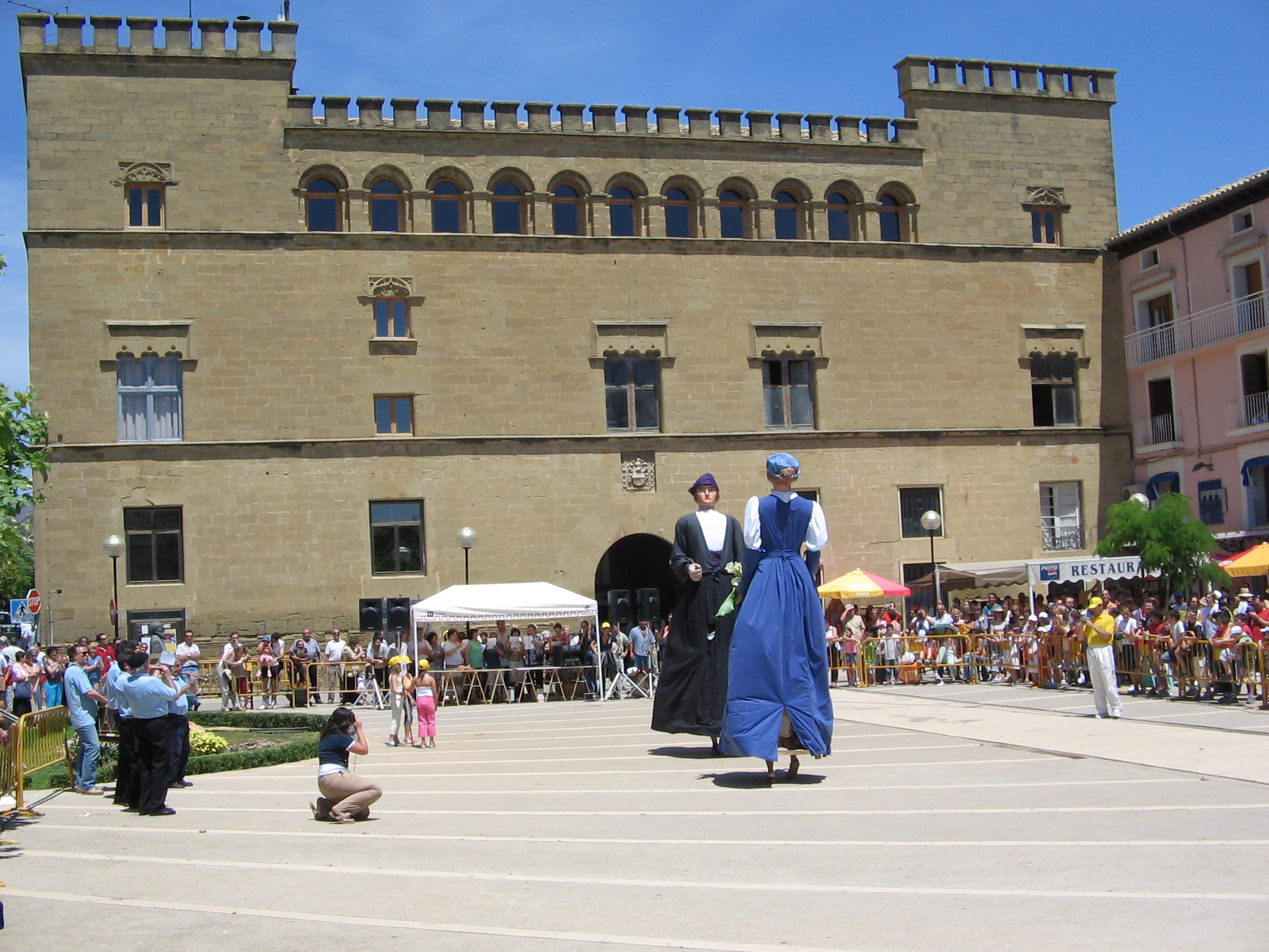 The 6th meeting of the Giants of Aragon, Spain. Gigantes y cabezudos